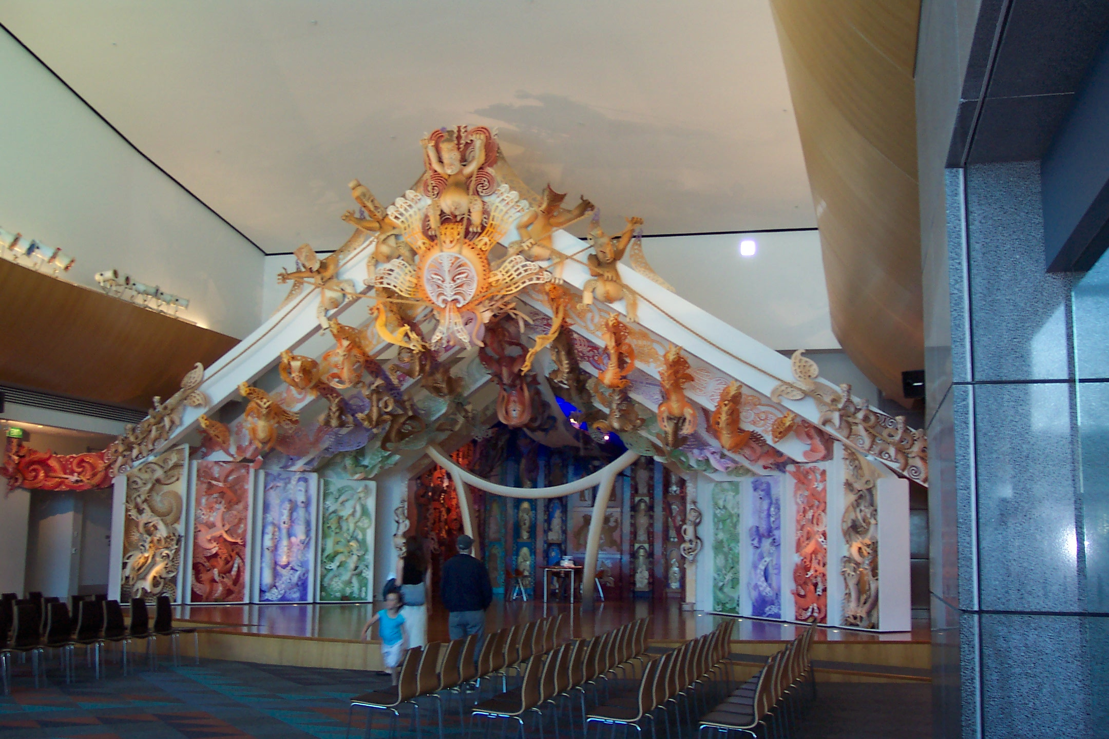 Photo taken by Steffen Hillebrand at the Te Papa Tongarewa, Wellington, New Zealand.